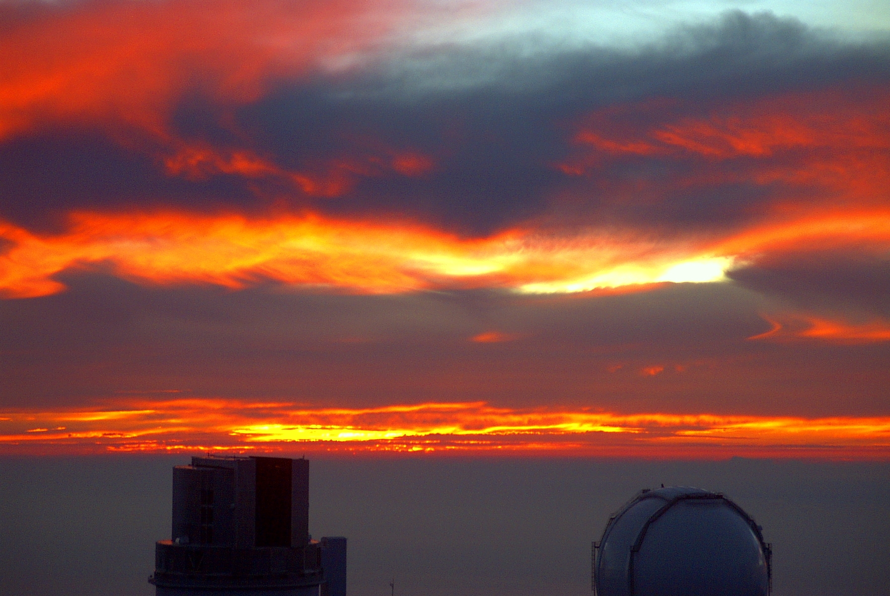 Sunset over Mauna Kea, Hawai'i. Visible is the Subaru Telescope and one of the telescopes of the W. M. Keck Observatory.